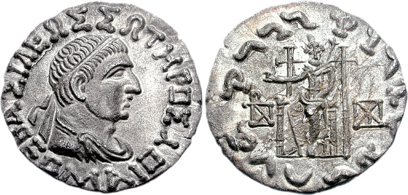 Coin of the Indo-Greek king Hermaios